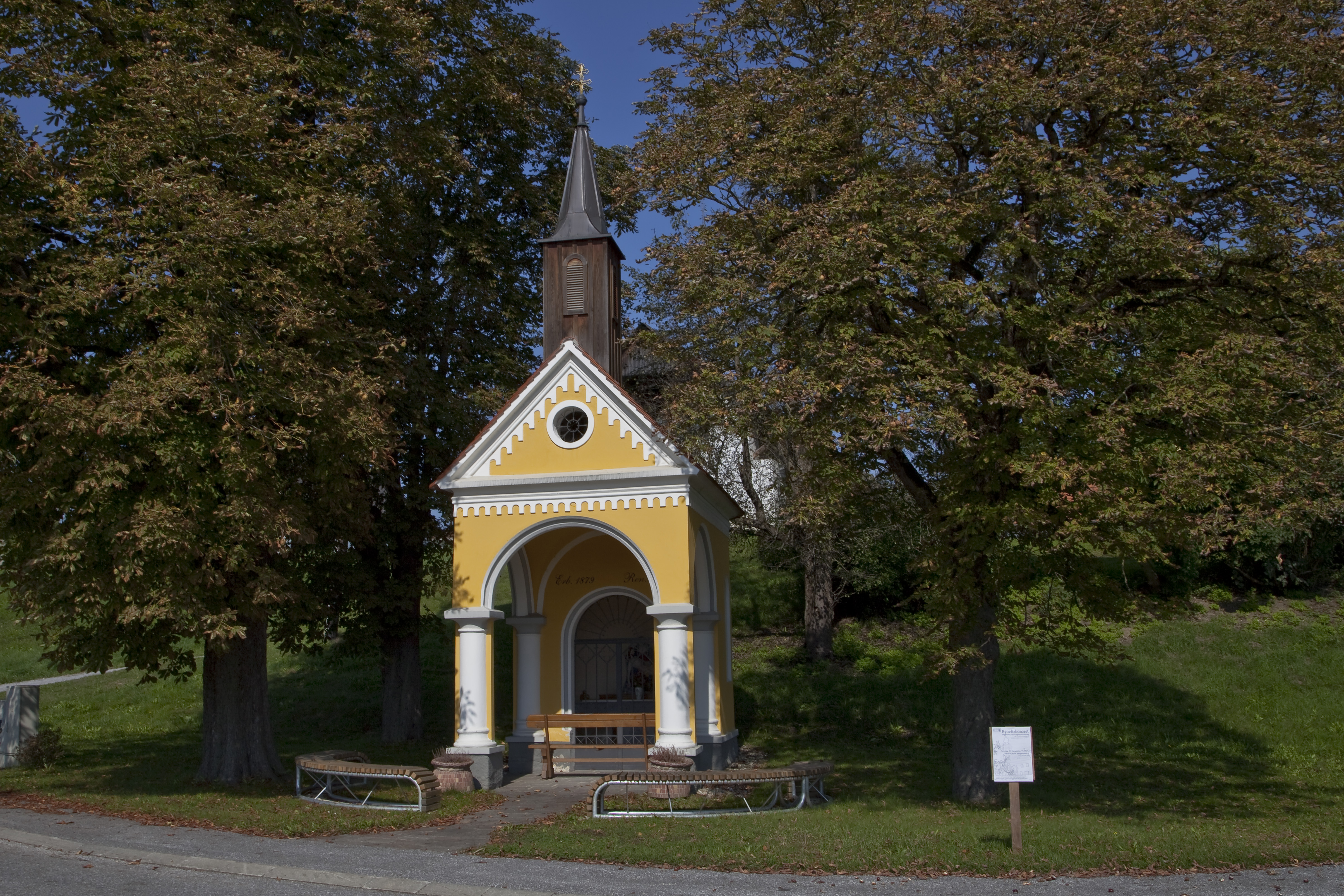 Flur-/Wegkapelle